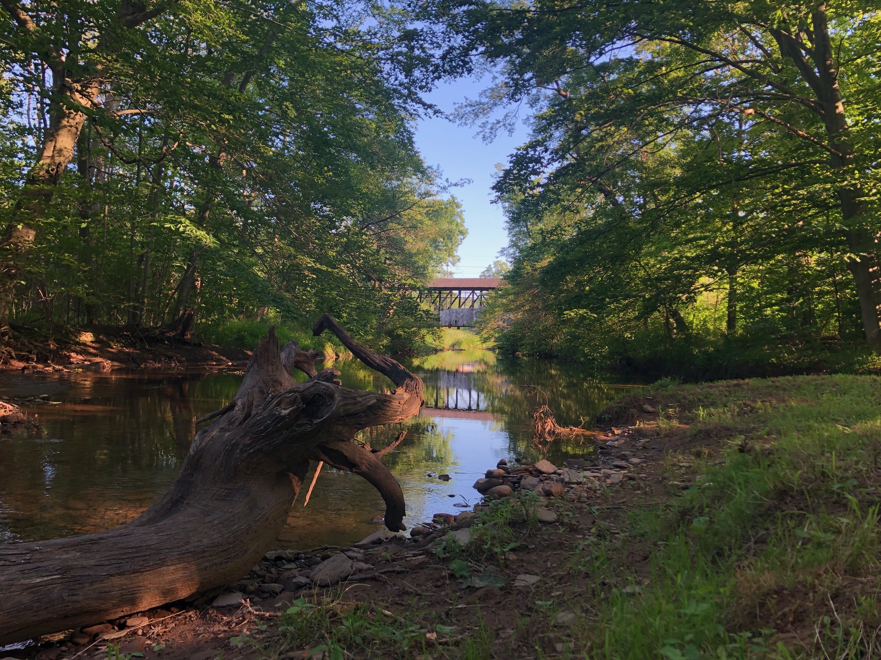 Cuppett's Covered Bridge as Seen from Cuppett Island.